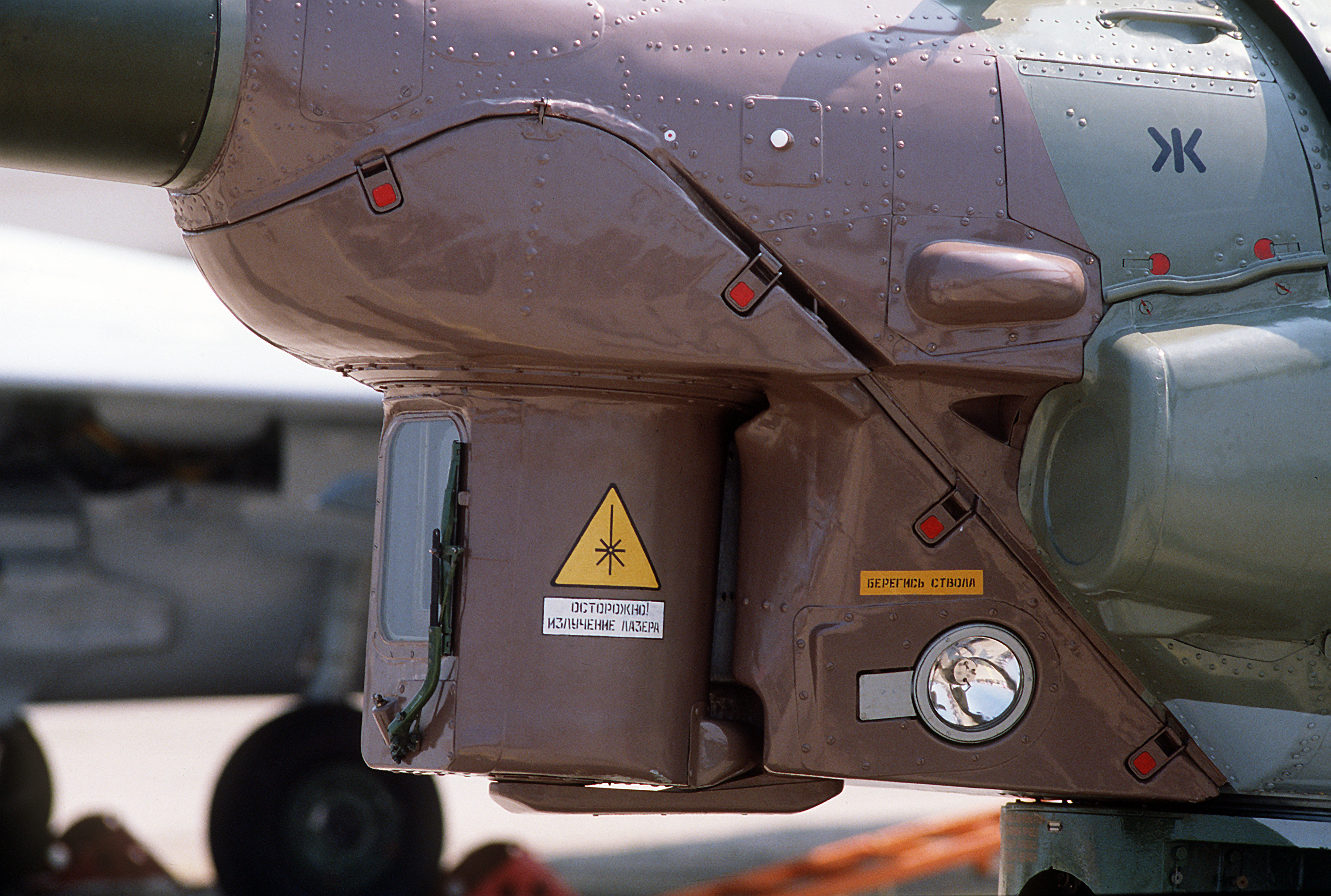 A partial close-up view of a Soviet Mi-28 Havoc helicopter on display at the 38th Paris International Air and Space Show at Le Bourget Airfield reveals its laser target-designating system. Camera Operator: MASTER SGT. DAVE CASEY Date Shot: 13 Jun 1989